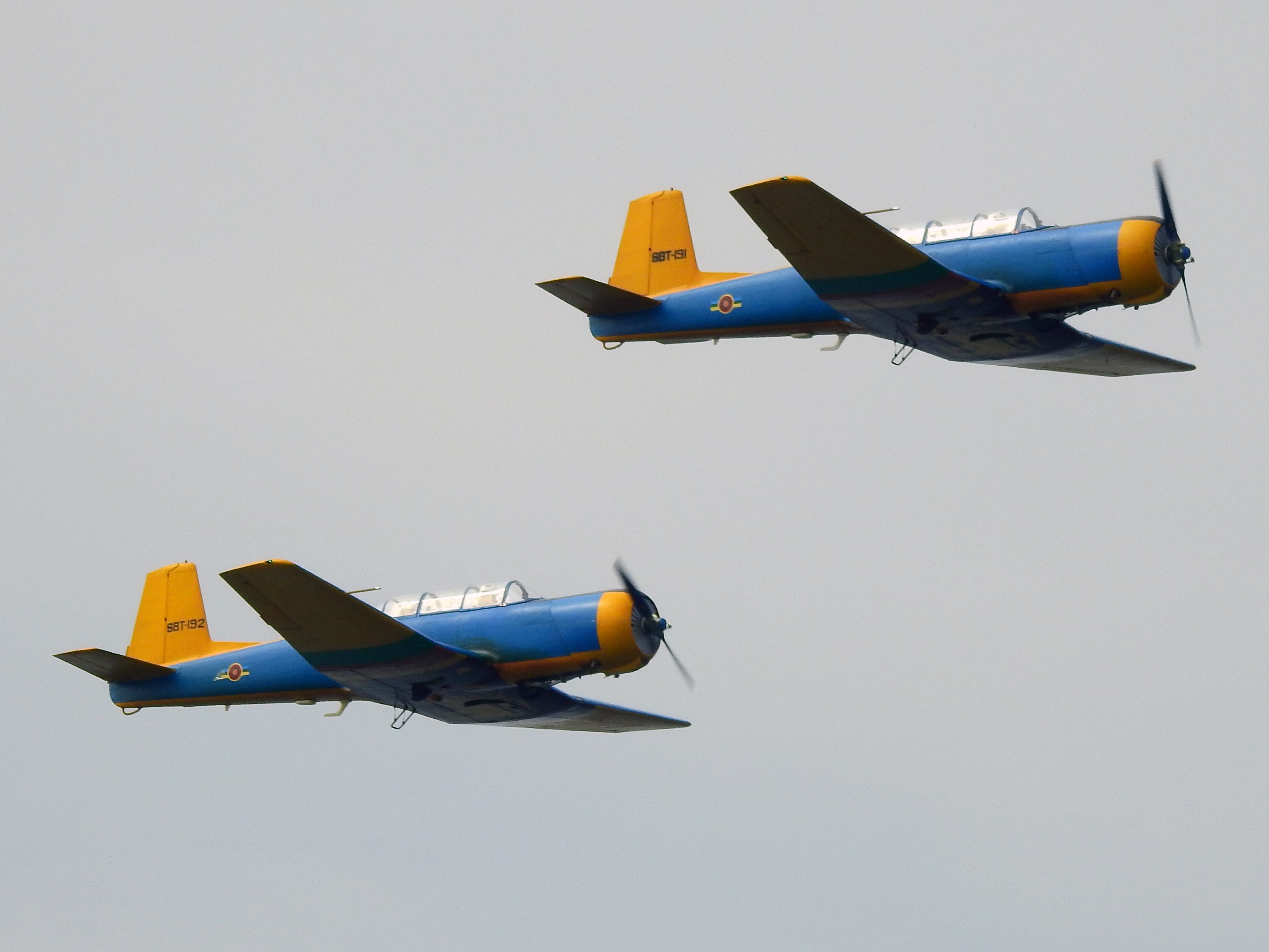 A 2-hour photowalk was conducted during the Independence Day of Sri Lanka (4 February 2019), covering the environment and events near the annual parade held at Galle Face Green. The project mostly covered the Navy and Coast Guard vessels, Air Force aircrafts, and civilian life during that morning.